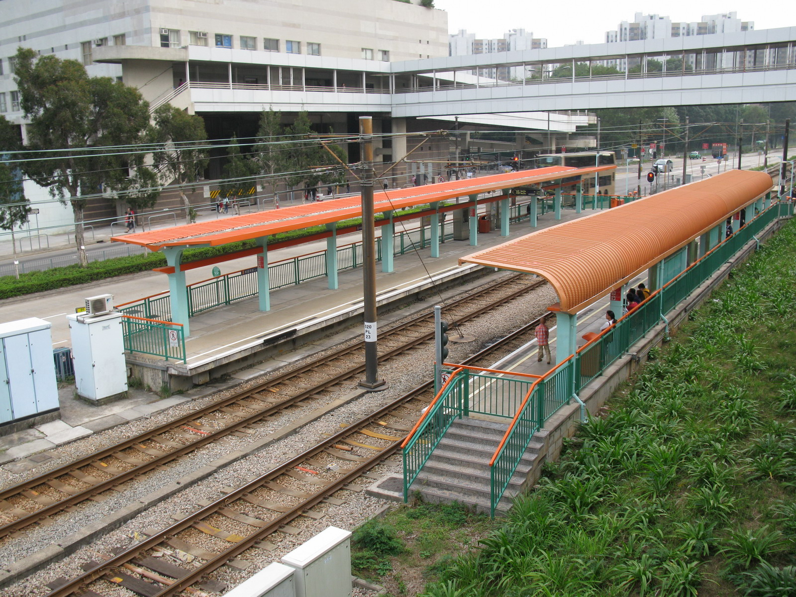 輕鐵 輕鐵車廠站 LRT Depot Stop, Light Rail